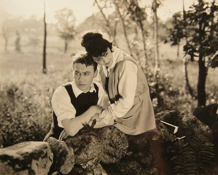 Tom Moore and Lucy Fox in the American comedy drama film Just for Tonight (1918) - publicity still (cropped).